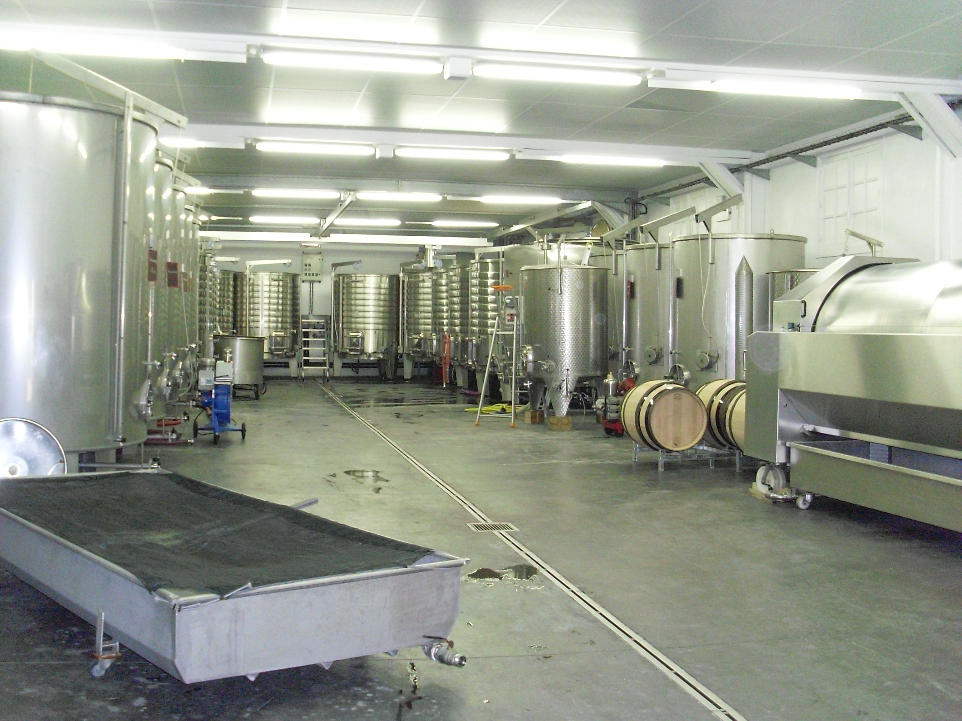 Cuverie du domaine Henri Boillot à Volnay. Modern winemaking facility featuring stainless steel fermentation tanks and bladder press in the Burgundy wine region of France.